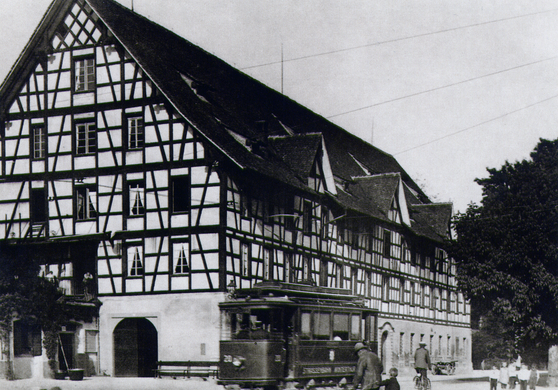 Winterthur: Old Barracks, with Tram, around 1918